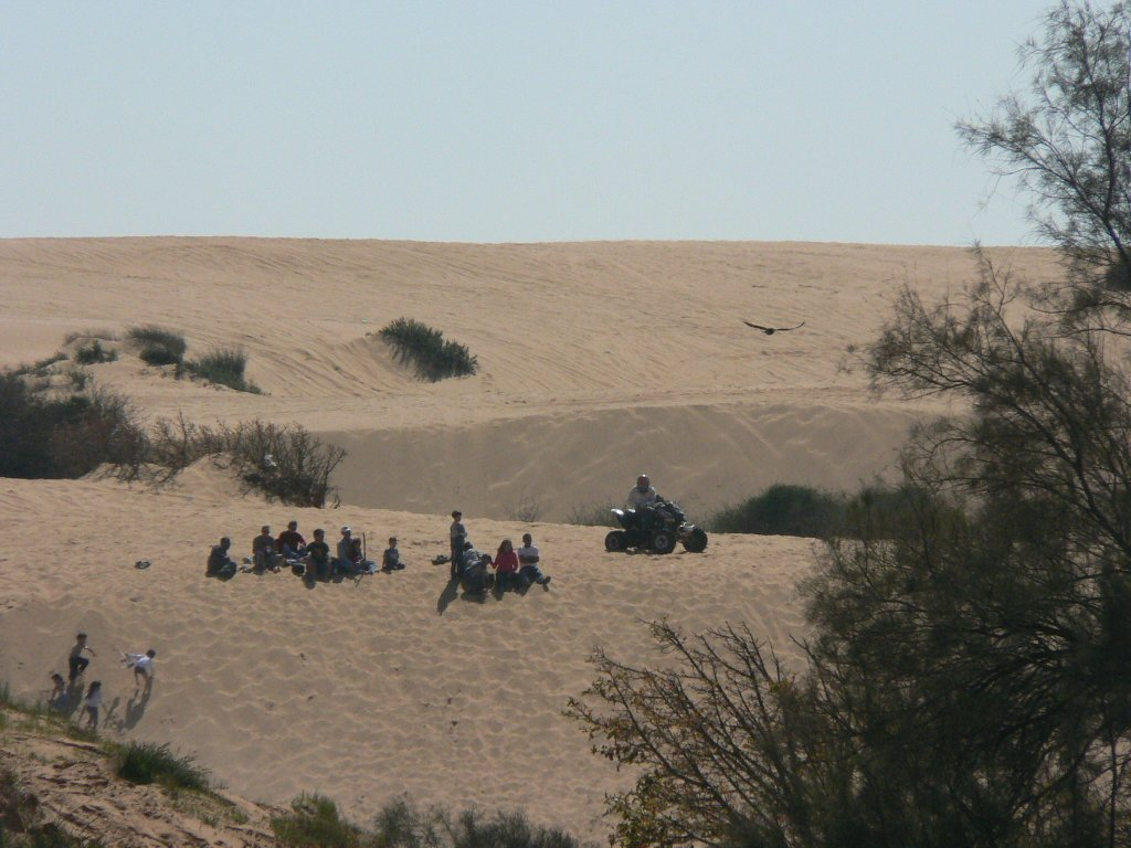 The Great Dune of Ashdod, Israel הדיונה הגדולה באשדוד Author: MathKnight